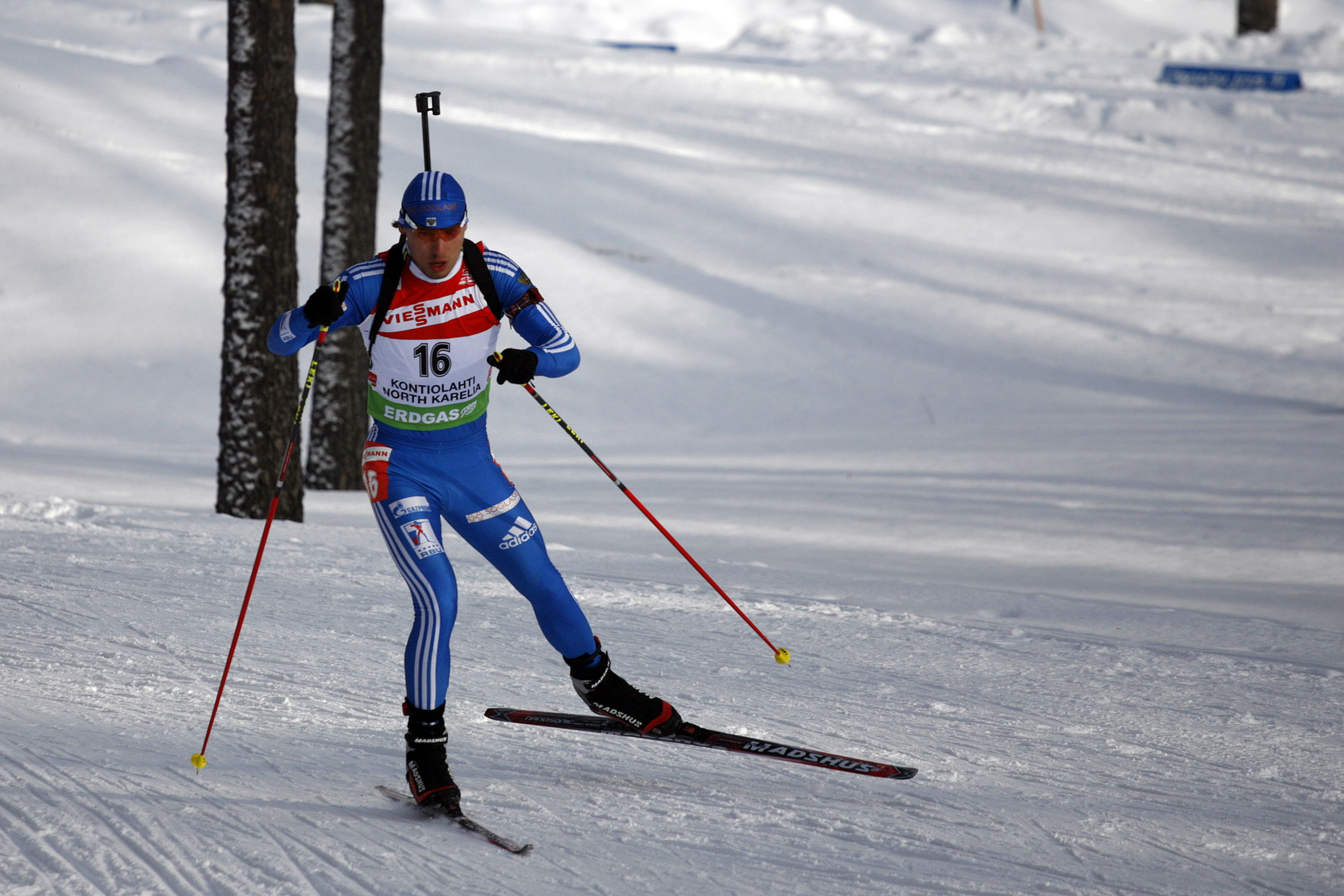 Anton Shipulin. Men 10 km sprint, 13 march 2010, Kontiolahti.